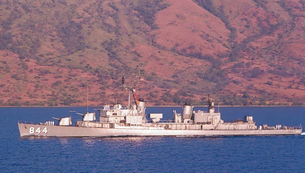 The U.S. Navy Gearing-class destroyer USS Perry (DD-844) in the late 1960s. The photo was taken from the aircraft carrier USS Coral Sea (CVA-43).